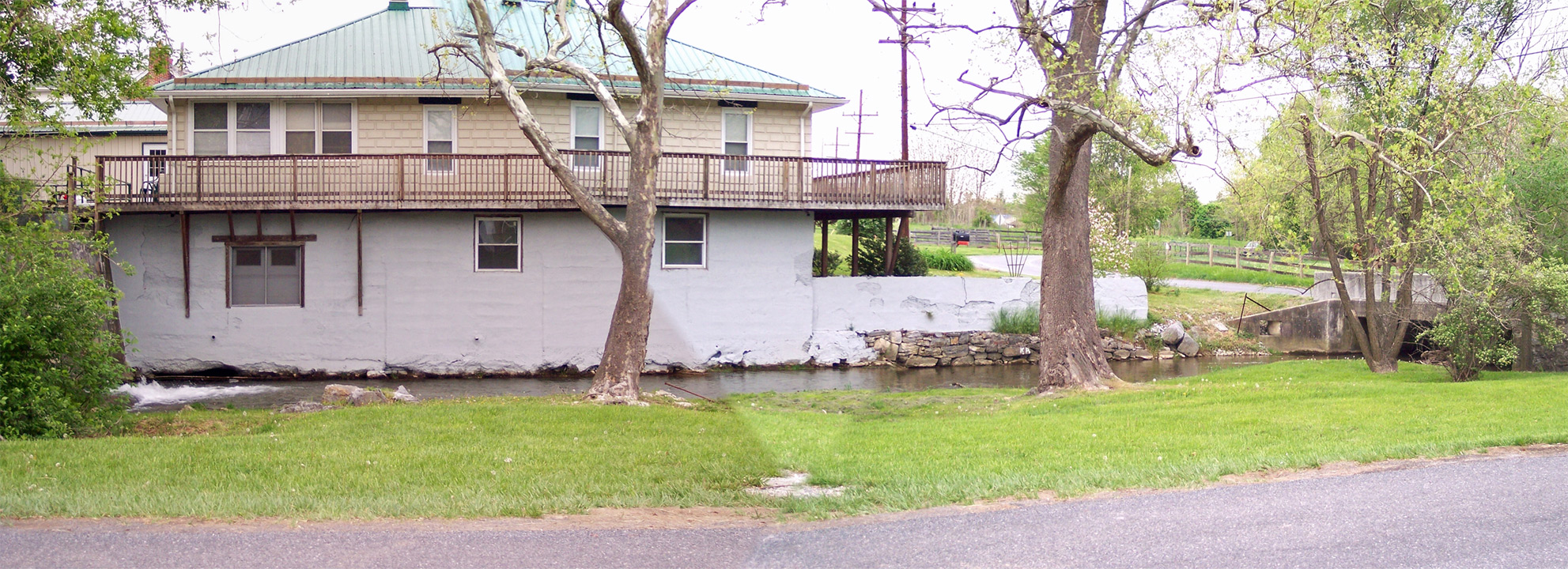 Panoramic shot of Tuscarora Creek in Martinsburg, WV